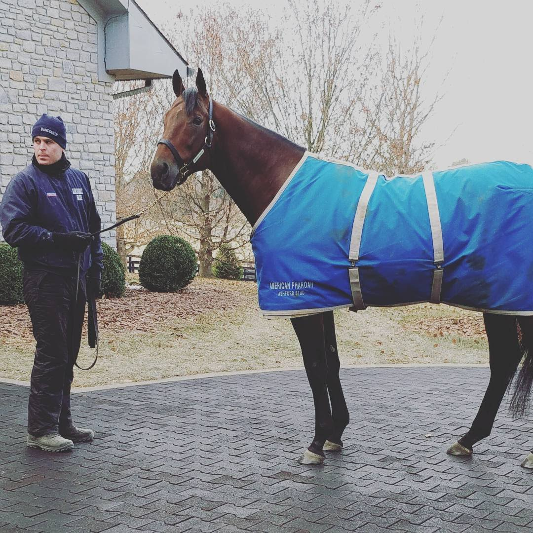 Coolmore Tour Feel free to use this photo however you like, just attribute . Thanks!